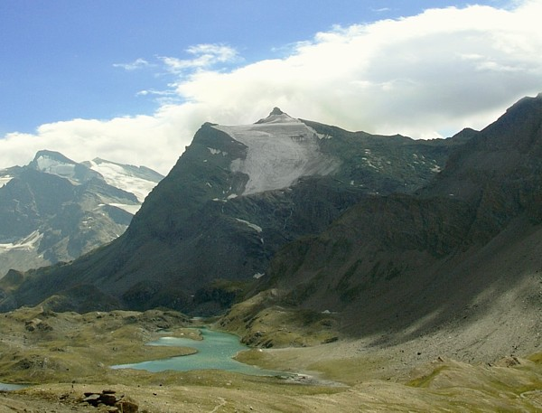 Punta Basei Picture taken and edited by user Idefix august 2005